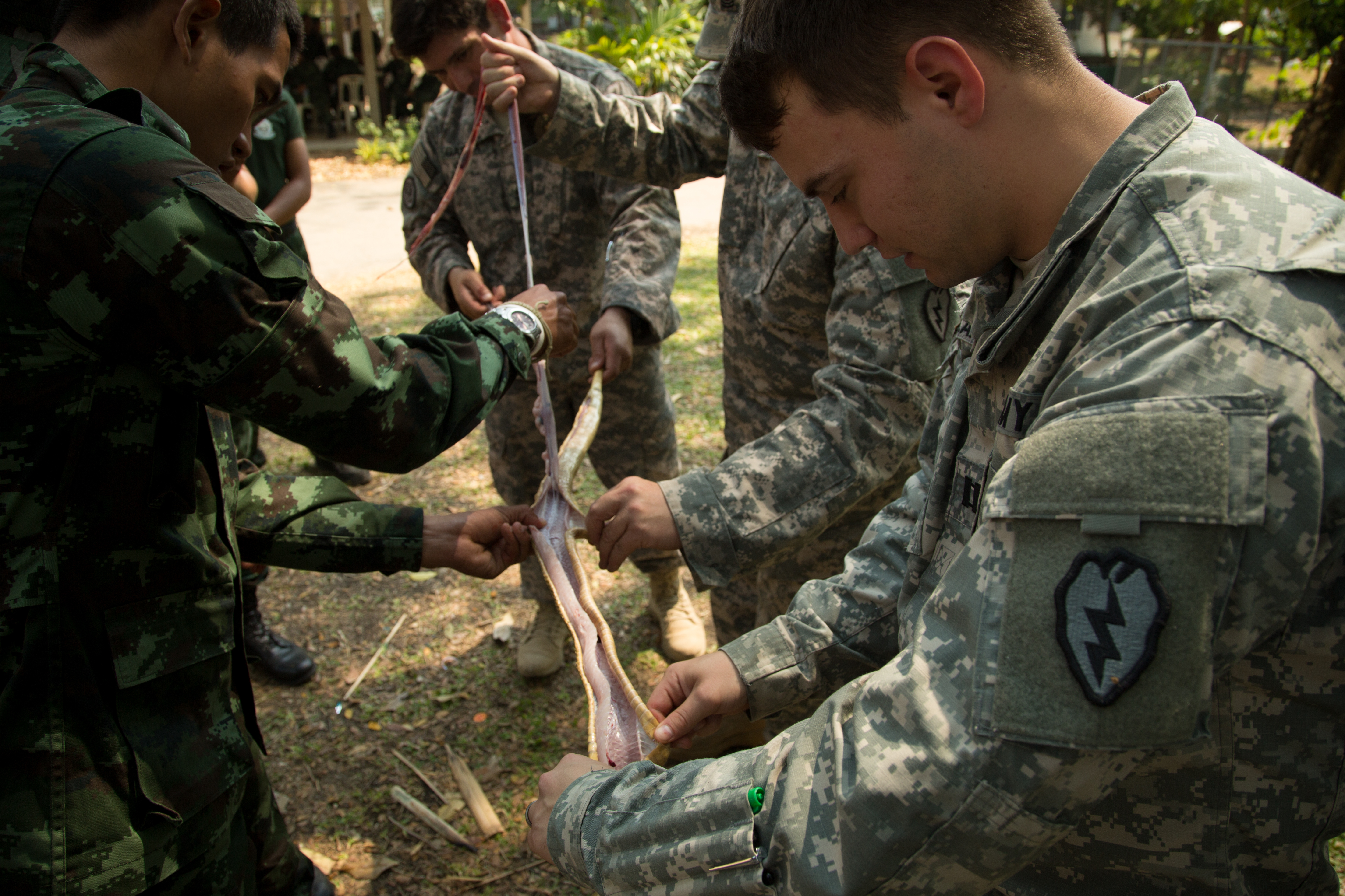 Royal Thai Army Soldiers assigned to the 31st Infantry Regiment, Rapid Deployment Force, Kings Guard, demonstrate how to properly handle and neutralize a King Cobra snake to U.S. Army soldiers assigned to the 25th Infantry Division during a jungle training exercise on Camp 31-3, Lopburi, Thailand, Feb. 10, 2015. The training was conducted as a part of the joint training exercise Cobra Gold 2015. (U.S. Army photo by Spc. Steven Hitchcock/Released)